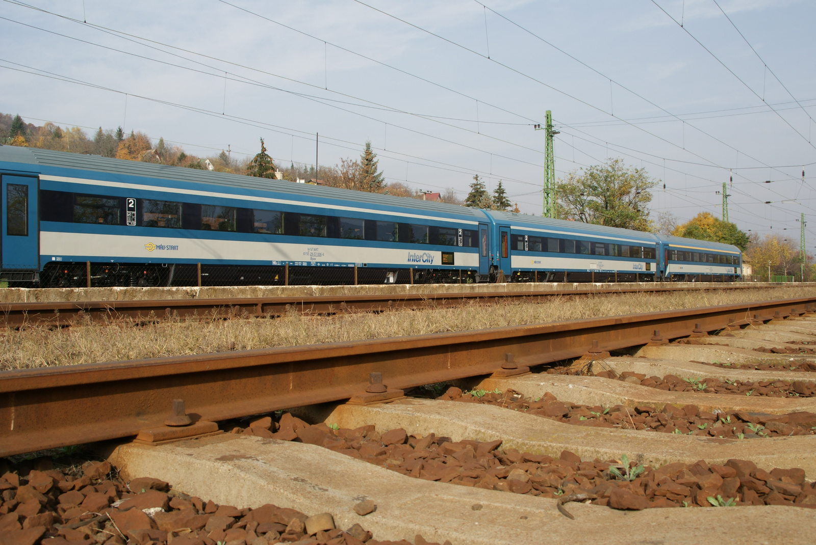 Hungarian Máv-Start Intercity